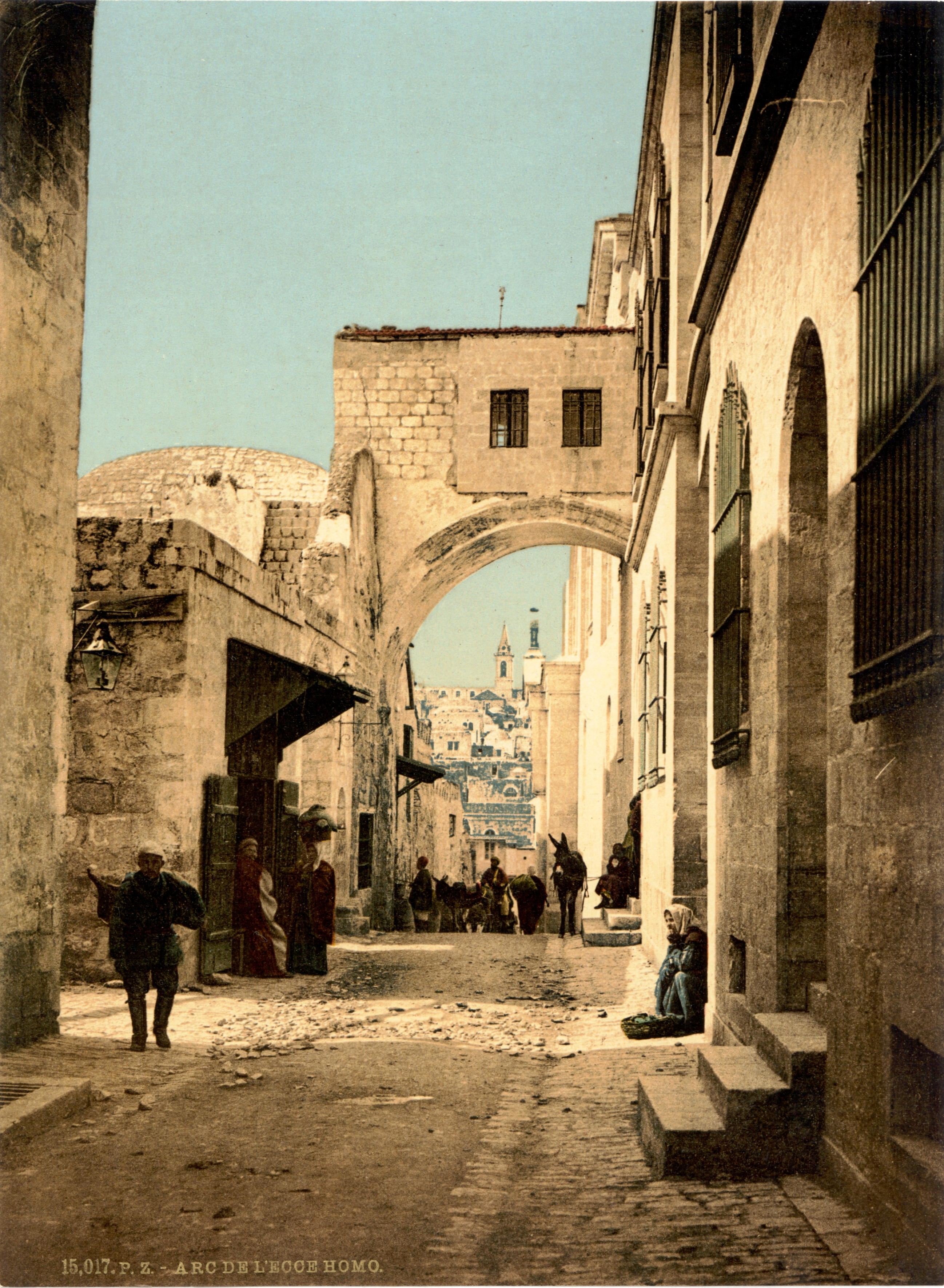 The Arch of Ecce Homo, Jerusalem, Holy Land imprinted title in